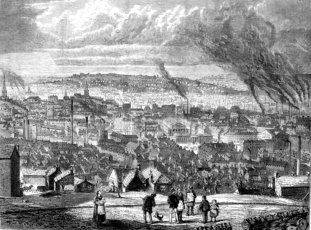 Print from The Graphic of 28 November 1874: General View of Sheffield from the east - Taken from St. John's Church